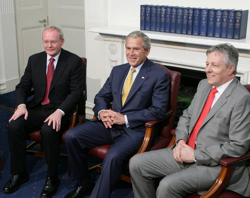 Northern Ireland Deputy First Minister Martin McGuinness, left, U.S. President George W. Bush, center, and Northern Ireland First Minister Peter Robinson, right, during a meeting at Stormont Castle in Belfast, Northern Ireland.